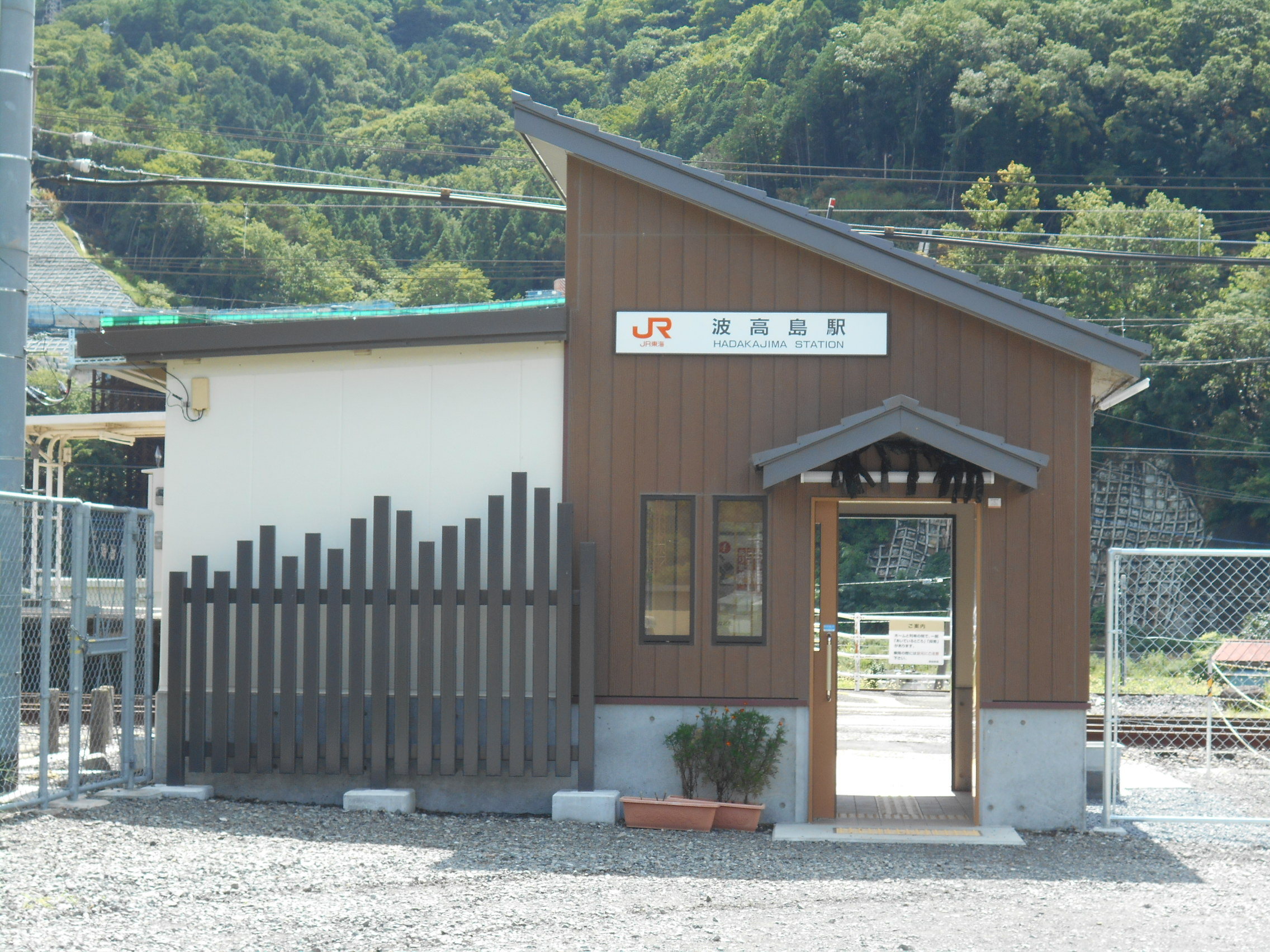 Hadakajima Station on the Minobu Line